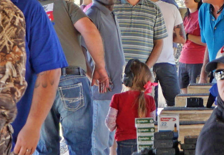 Bodcau Shooting Range near Haughton, Louisiana, where a young girl is seen, exposed to inhalation of fumes